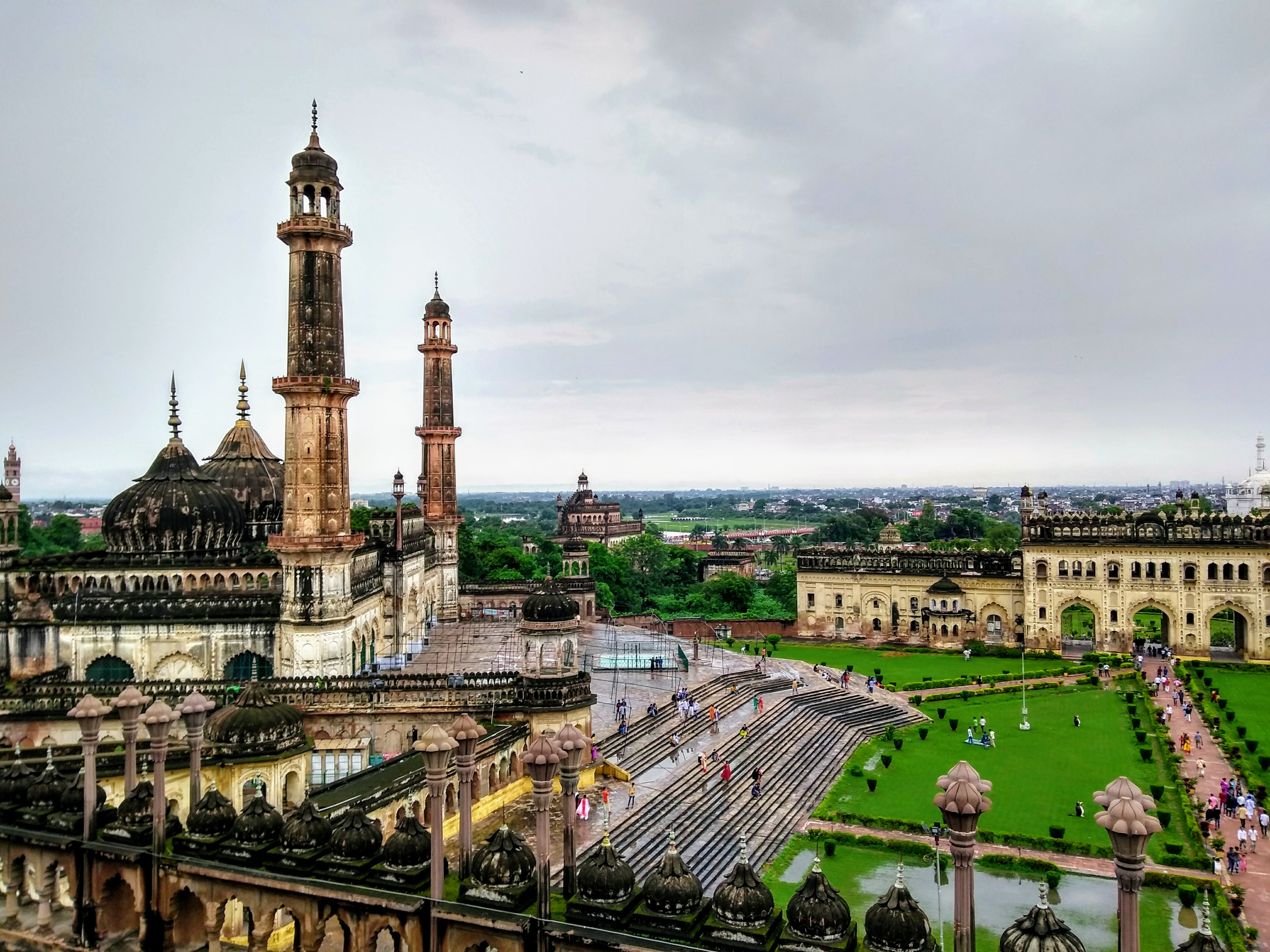 Scenic view of Bhul Bhulaiya